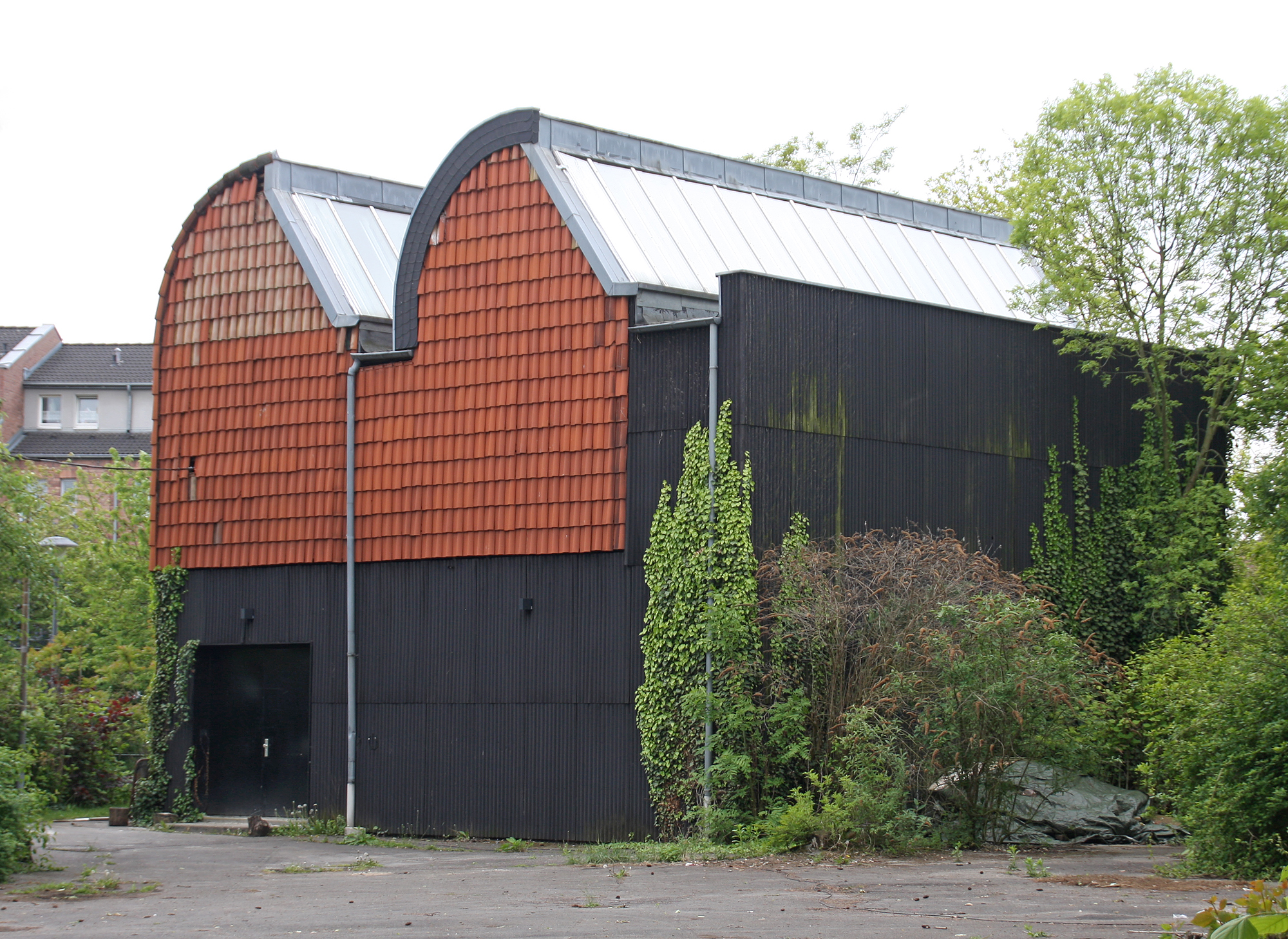 Simultanhalle („simultaneous hall“) in Cologne, originally built as test building for the Museum Ludwig in Cologne. Since 1986 also used as exhibition space